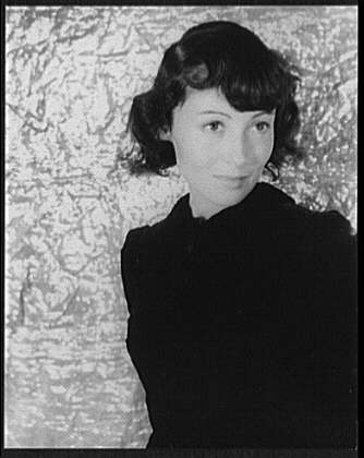 Portrait of Luise Rainer looking to side - September 2, 1937